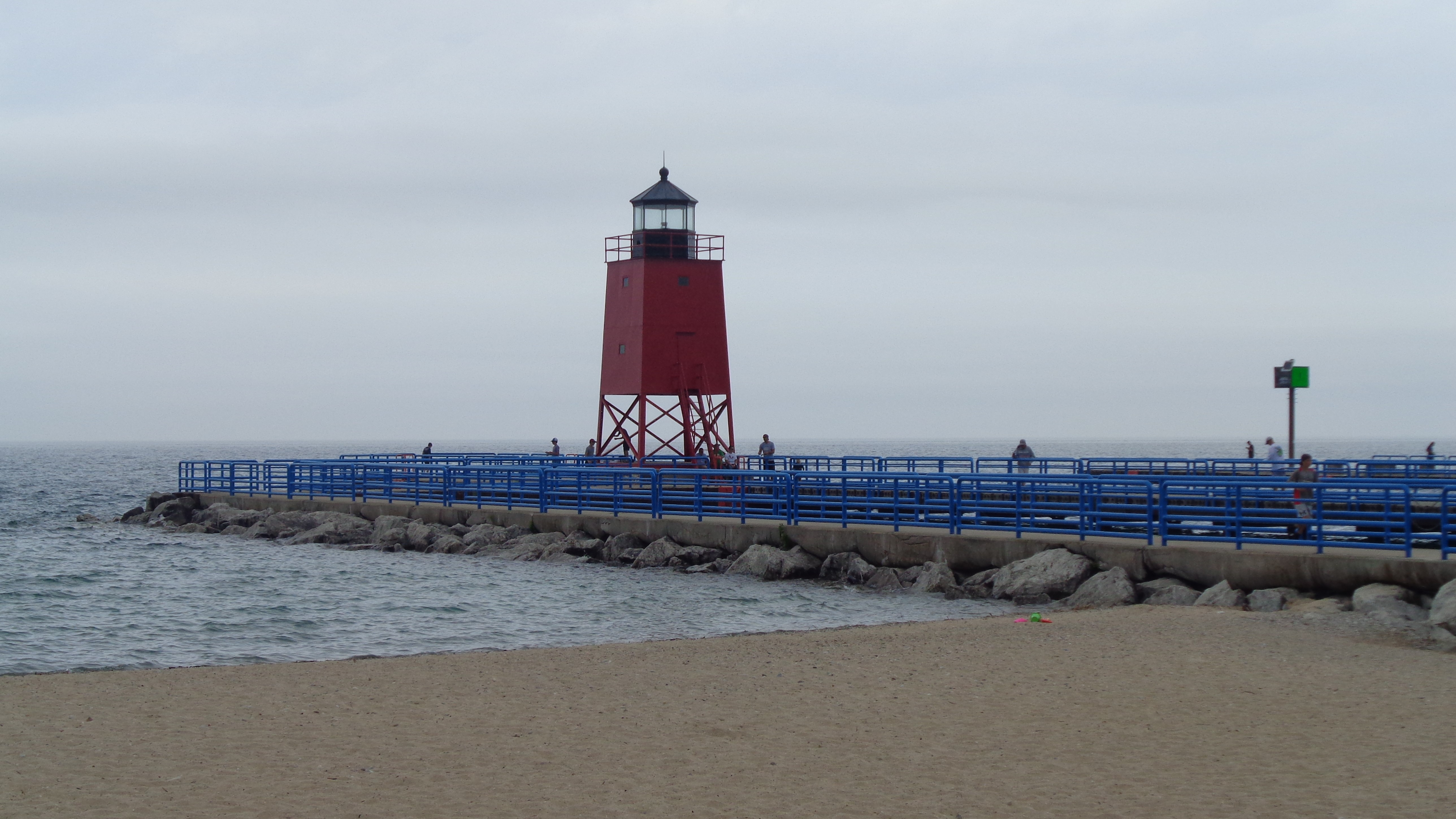 Charlevoix South Pier Light Station (July 2019)